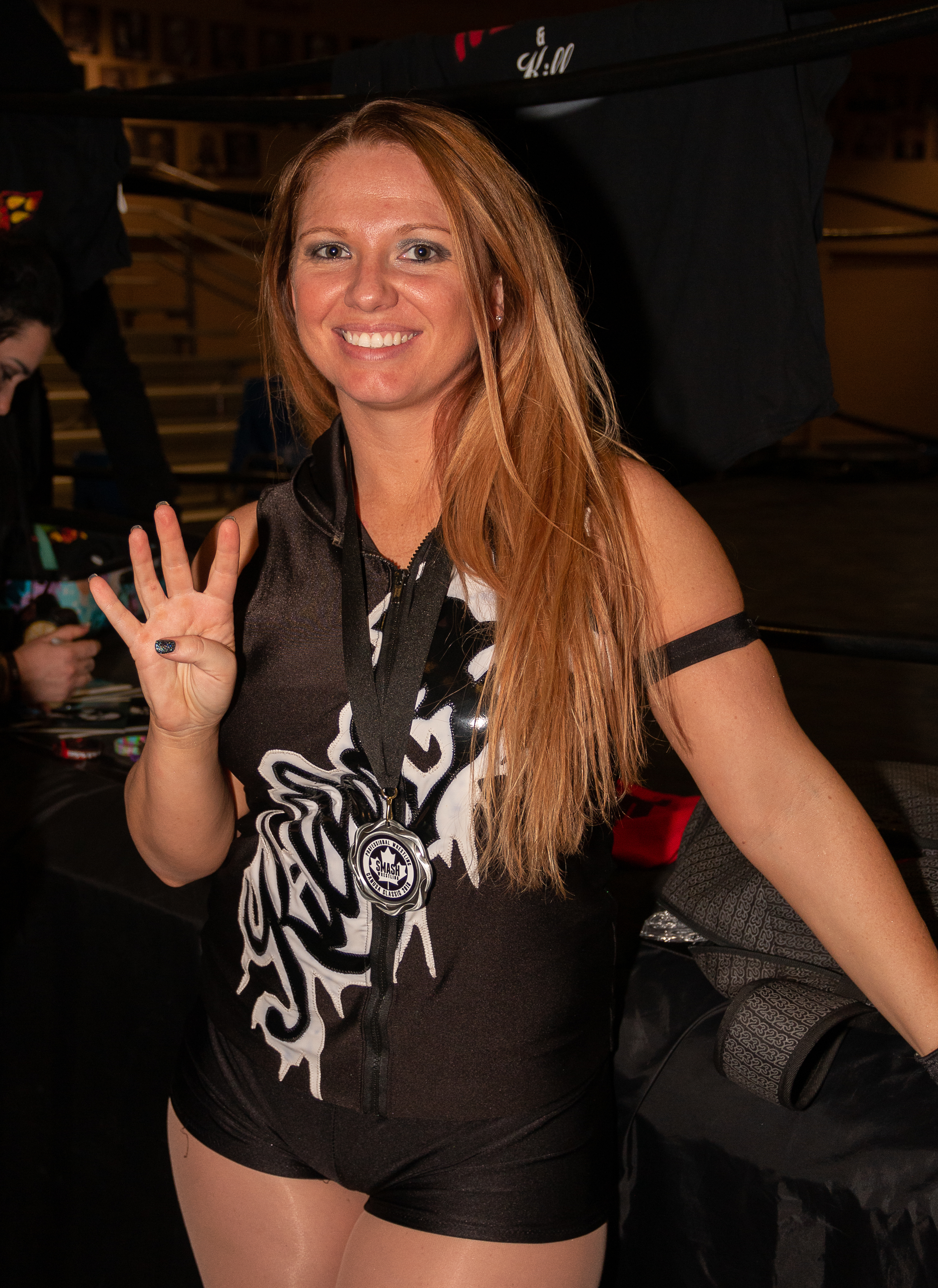 Pro wrestler Neveah photographed post-event at Smash Wrestling's Canusa 2018 show in London, ON